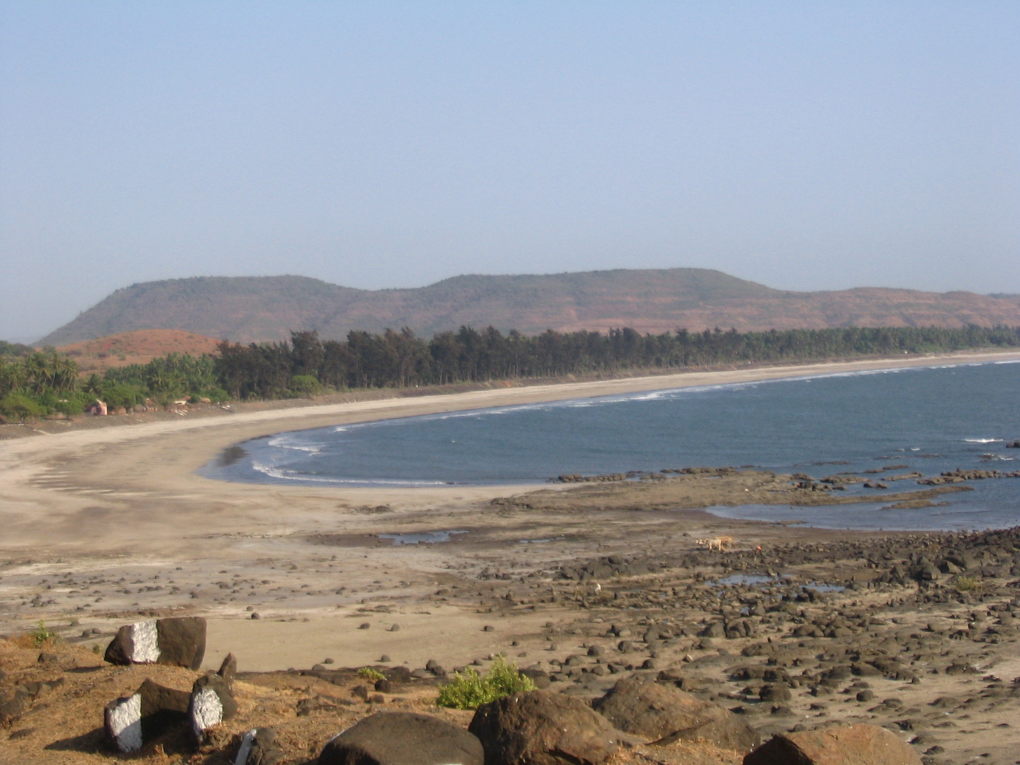 Kondivali beach in Shrivardhan